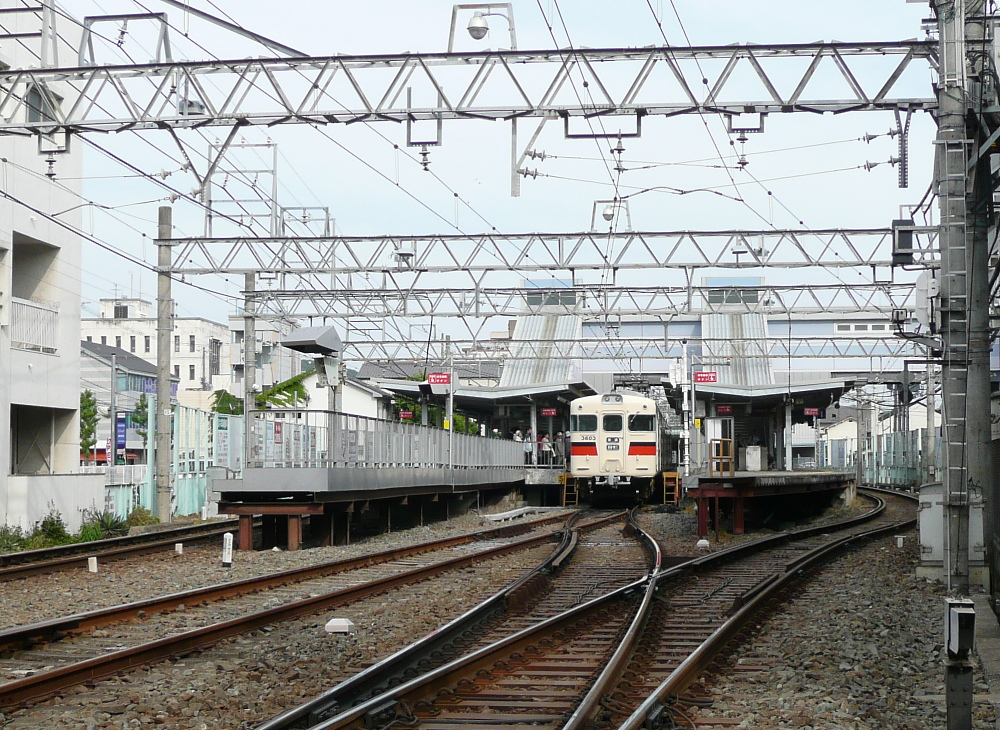 Sanyo-Shikama Station platform.